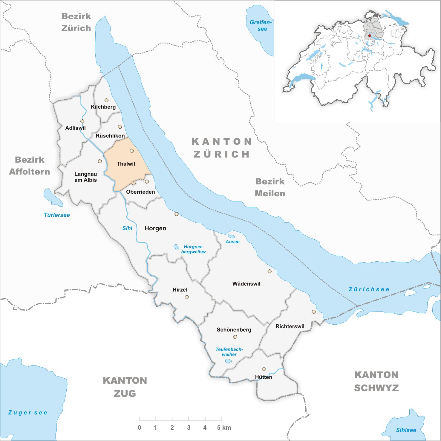 Municipality Thalwil